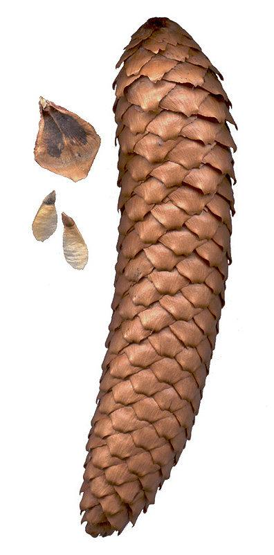 Picea abies cone and seeds, woods near Wrocław, Poland.